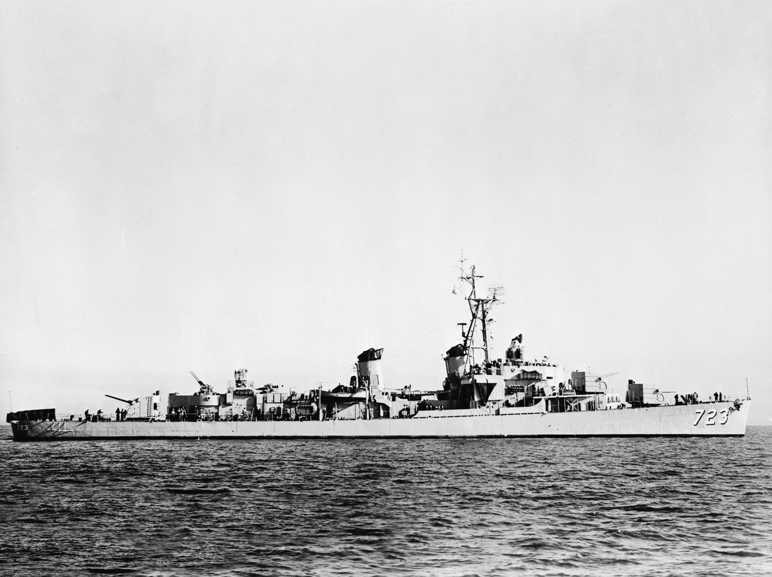 The U.S. Navy destroyer USS Walke (DD-723) off the San Francisco Naval Shipyard, California (USA), on 13 February 1952, following a regular overhaul.